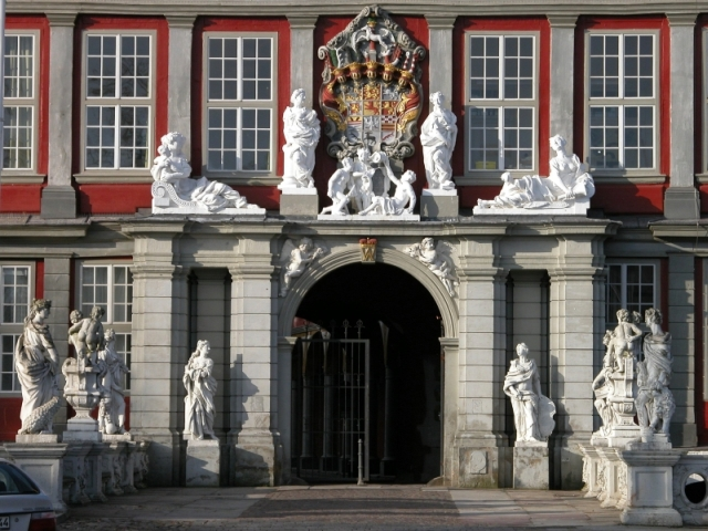 Wolfenbüttel, Germany: Portal of Wolfenbüttel Palace.